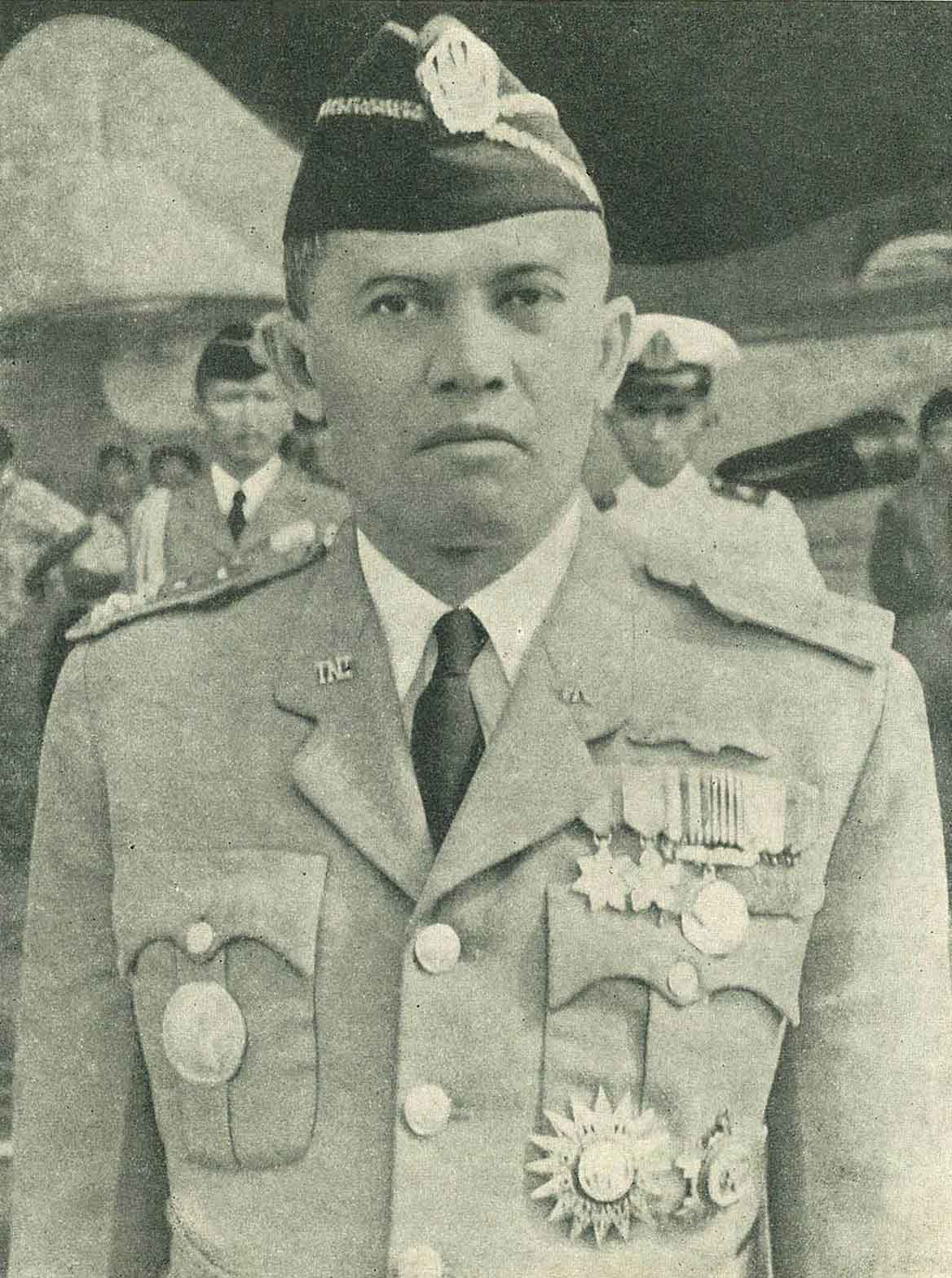 Minister of Defense Abdul Haris Nasution